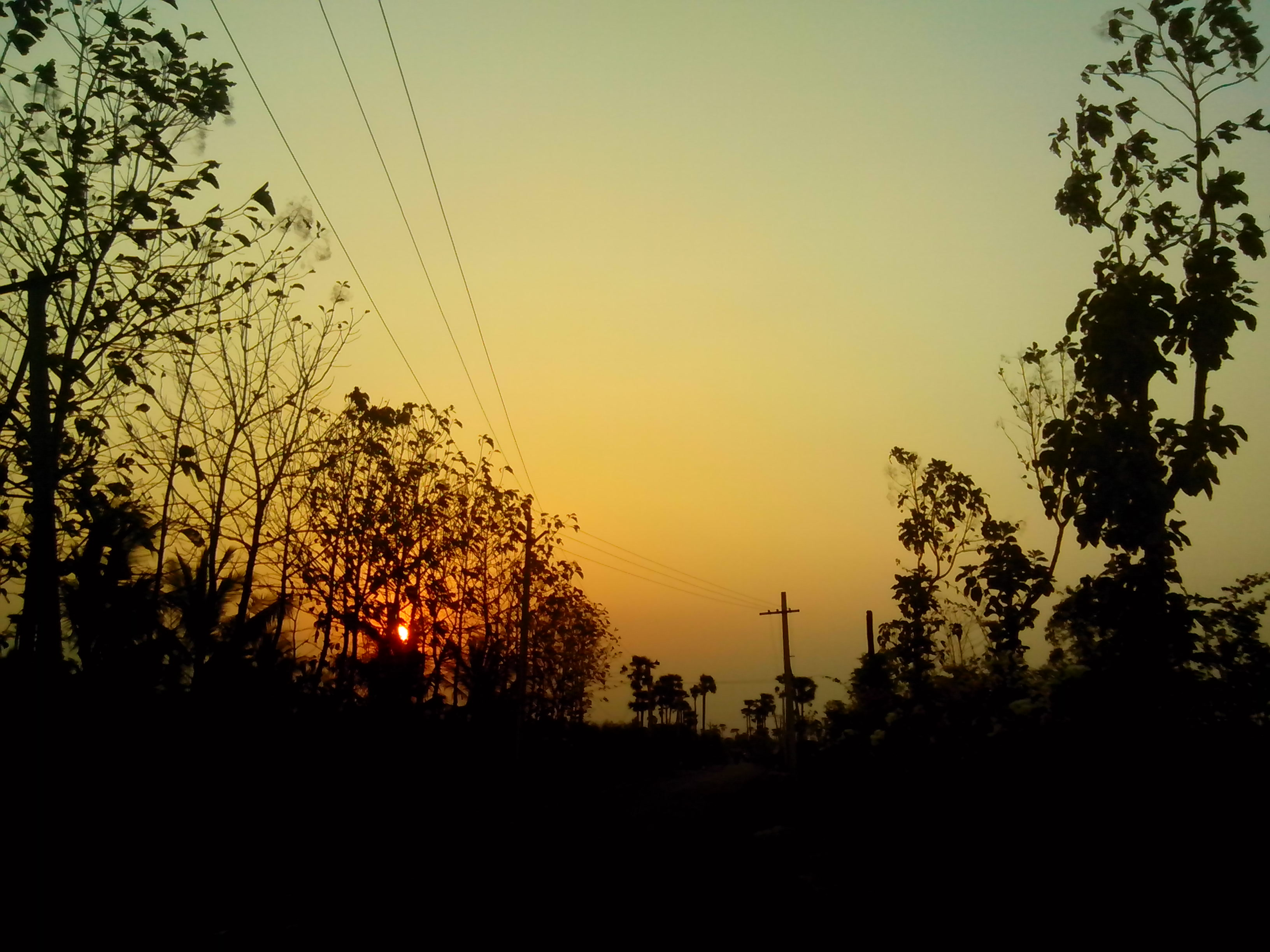 View of sunset at Rajula Tallavalasa village in Visakhapatnam district